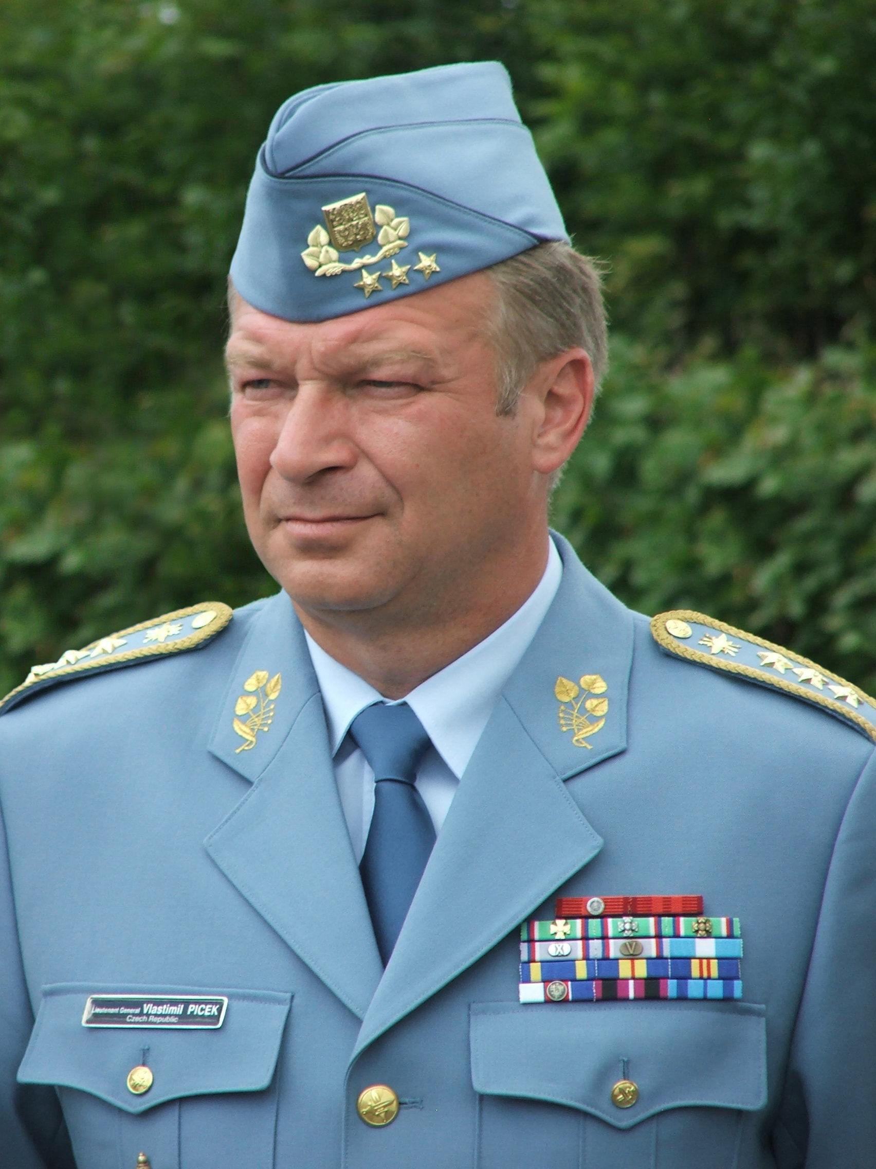 Army General Vlastimil Picek, Chief of the General Staff of the Czech Army, here with the rank Lieutenant General.